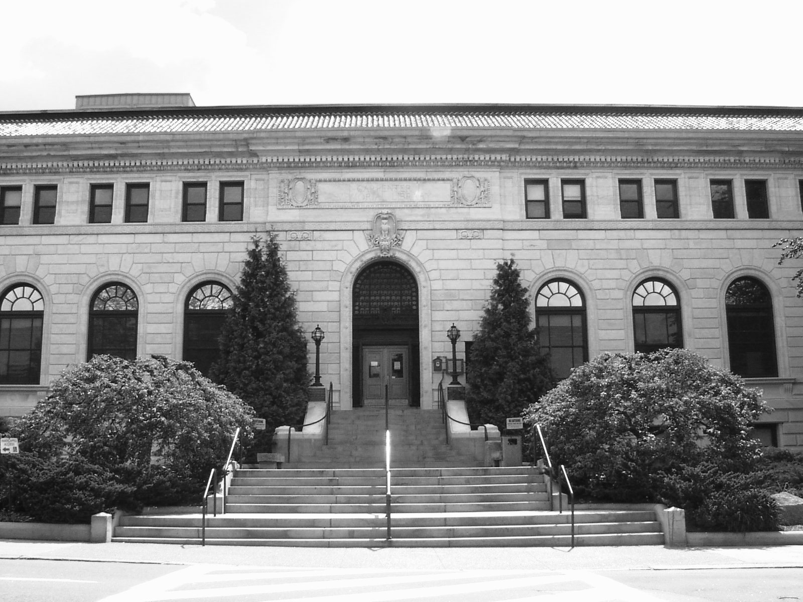 Front entrance of the Manchester City Library Main Branch